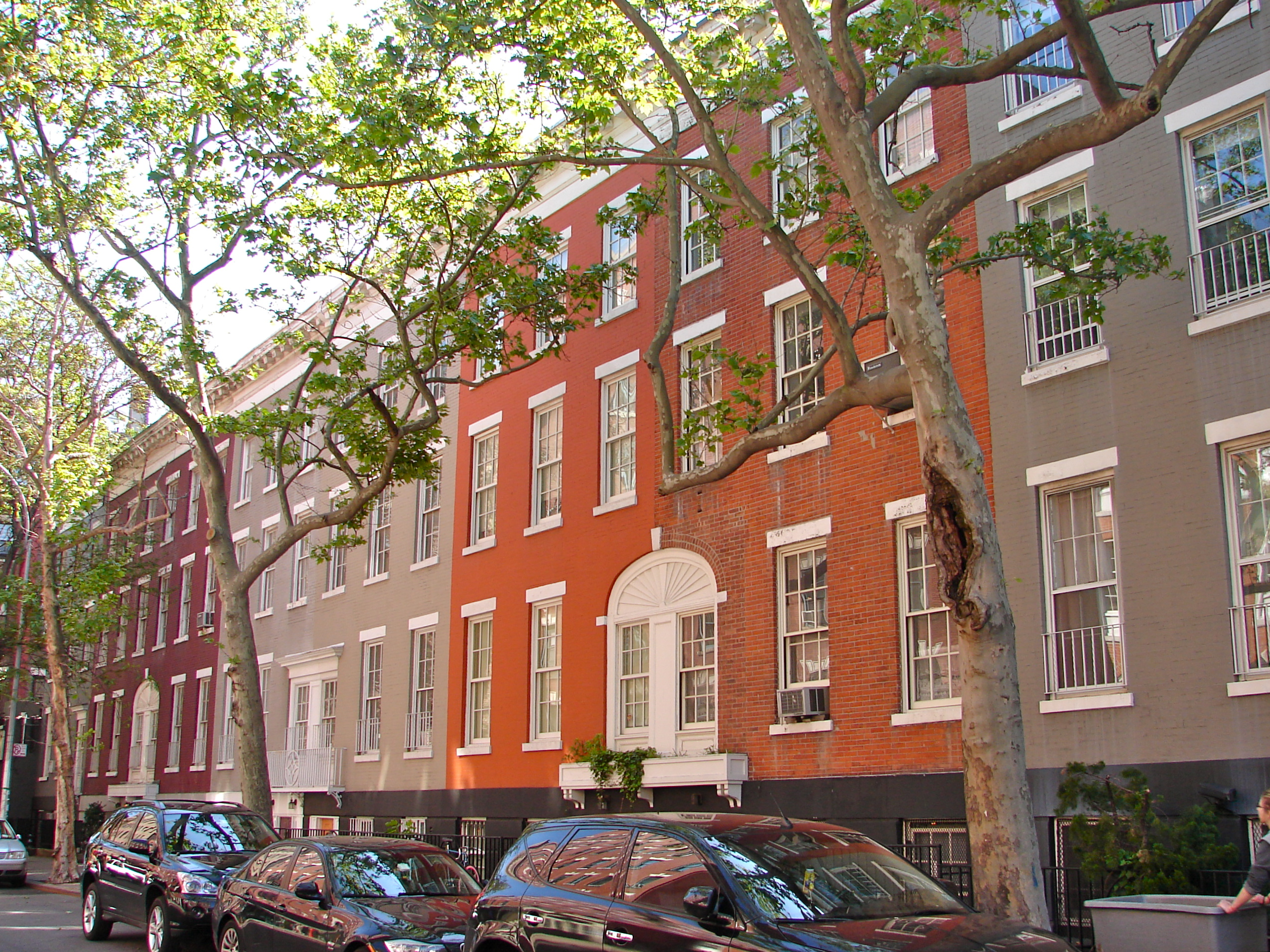 Houses in the Charlton-King-Vandam Historic District on the NRHP since July 20, 1973. The historic district is roughly bounded by Varick, Vandam, MacDougal and King Sts. in Greenwich Village, New York, New York.